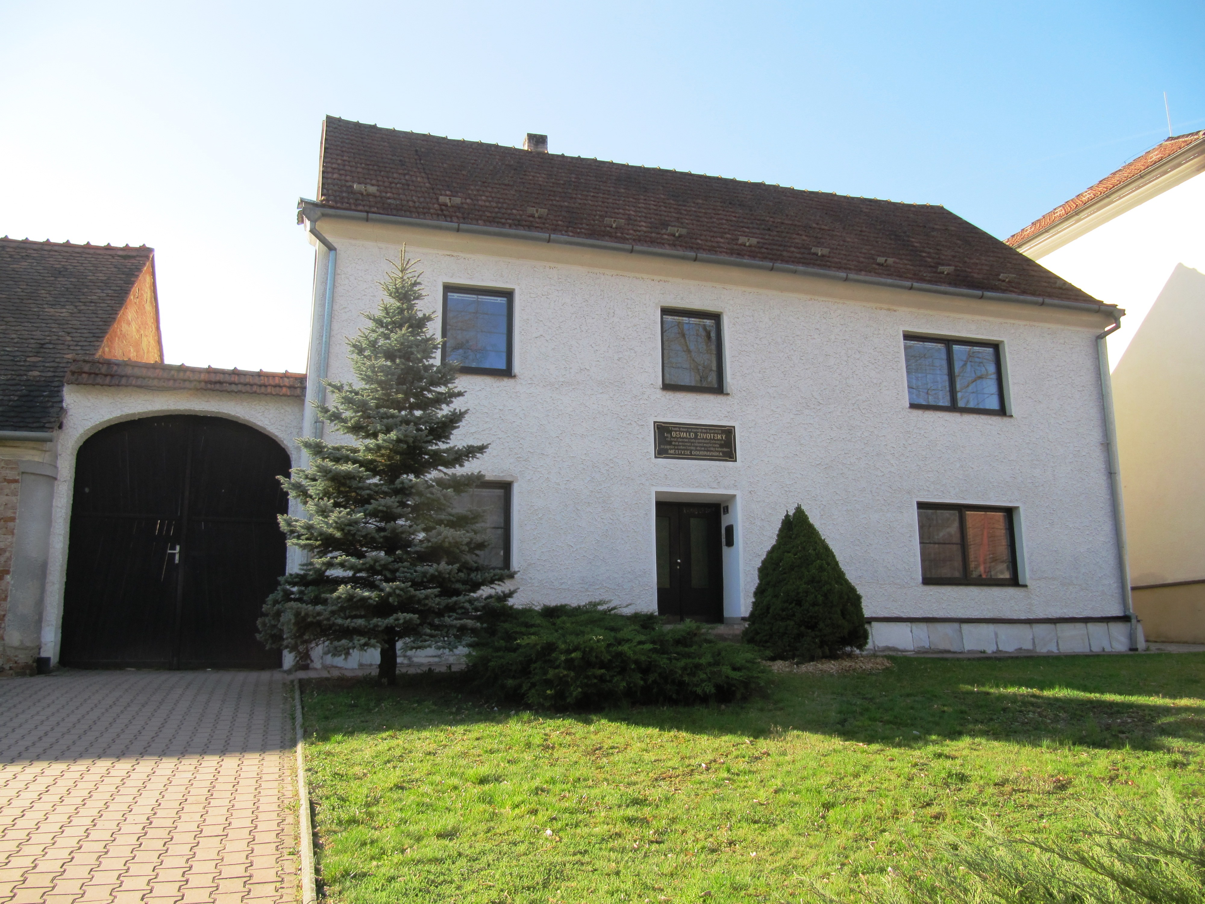 Doubravník, Brno-Country District, Czechia.